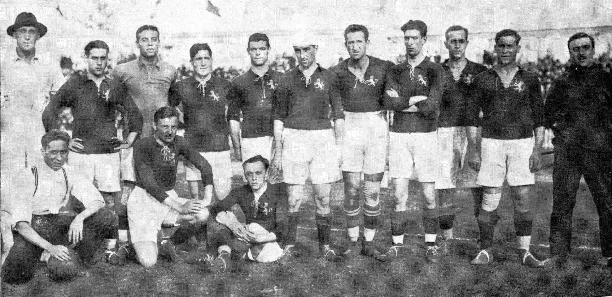 Spanish national team which played against Belgium at the 1920 Summer Olympics. Line up: José María Belauste (did not play), Domingo Gómez-Acedo, Ricardo Zamora, Juan Artola, Patricio Arabolaza, Pichichi, Mariano Arrate, Ramón Eguiazábal, Joaquín Vázquez, Agustín Sancho, Paco Bru (coach), Manuel Lemmel (assistant coach), Pedro Vallana and Francisco Pagaza.